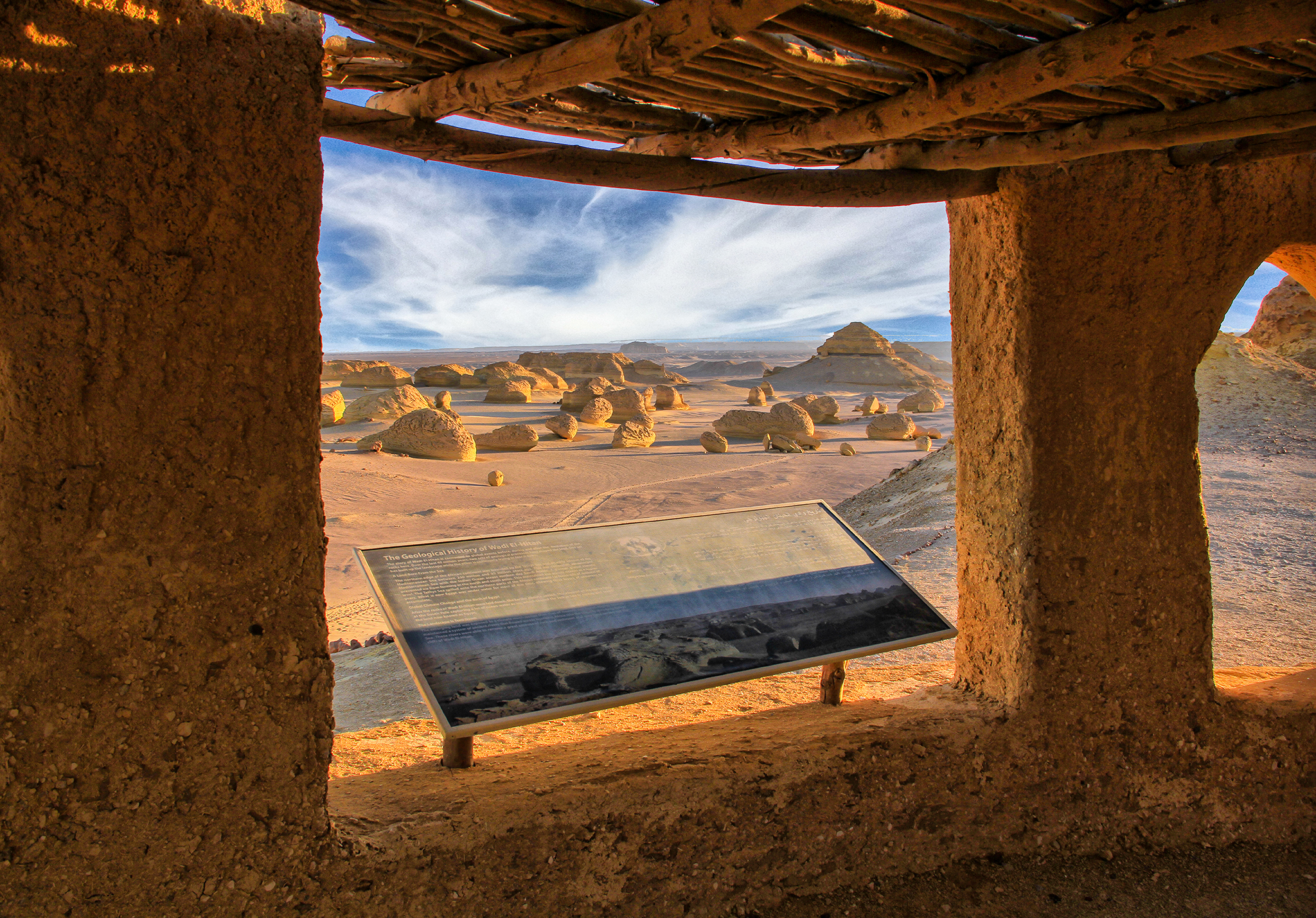 Whale Valley is located within the Wadi Rayan protectorate, which covers 1759 kilometers in Fayoum governorate, 150 kilometers from Cairo, Egypt. It was found in the valley of the whales on the structures for the full 10 whales had been living in that region about 40 million years ago, where she was part of a large perimeter includes North Africa. In the year 2005 have been classified Whale Valley area as a World Heritage by UNESCO and chosen as the best World Heritage skeletons of whales areas. Famous for Whale Valley existence of fossils complete whales was bustling area years ago 40 million when the valley is under huge circumference (Teeth Sea) in addition to the excavation many freely can be seen in the open-air museum that allows visitors the possibility of seeing whales and not compromised to protect them.